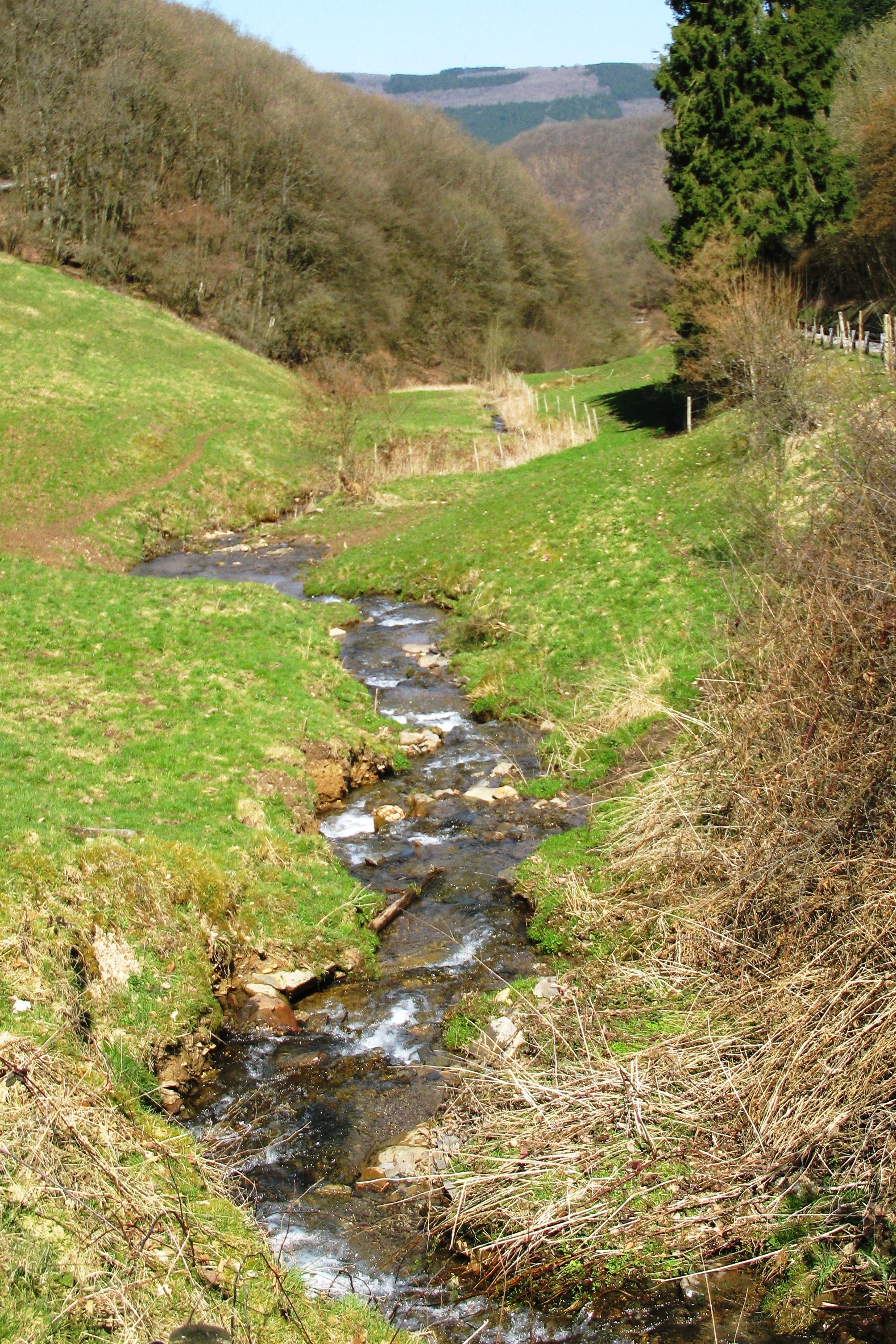 The Toodlerbaach creek in northern Luxembourg